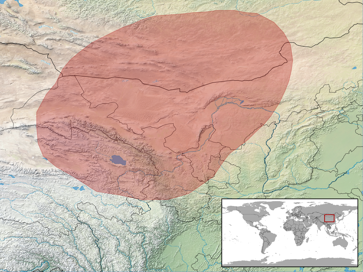 geographic distribution of Phrynocephalus przewalskii (Native: China; Mongolia)